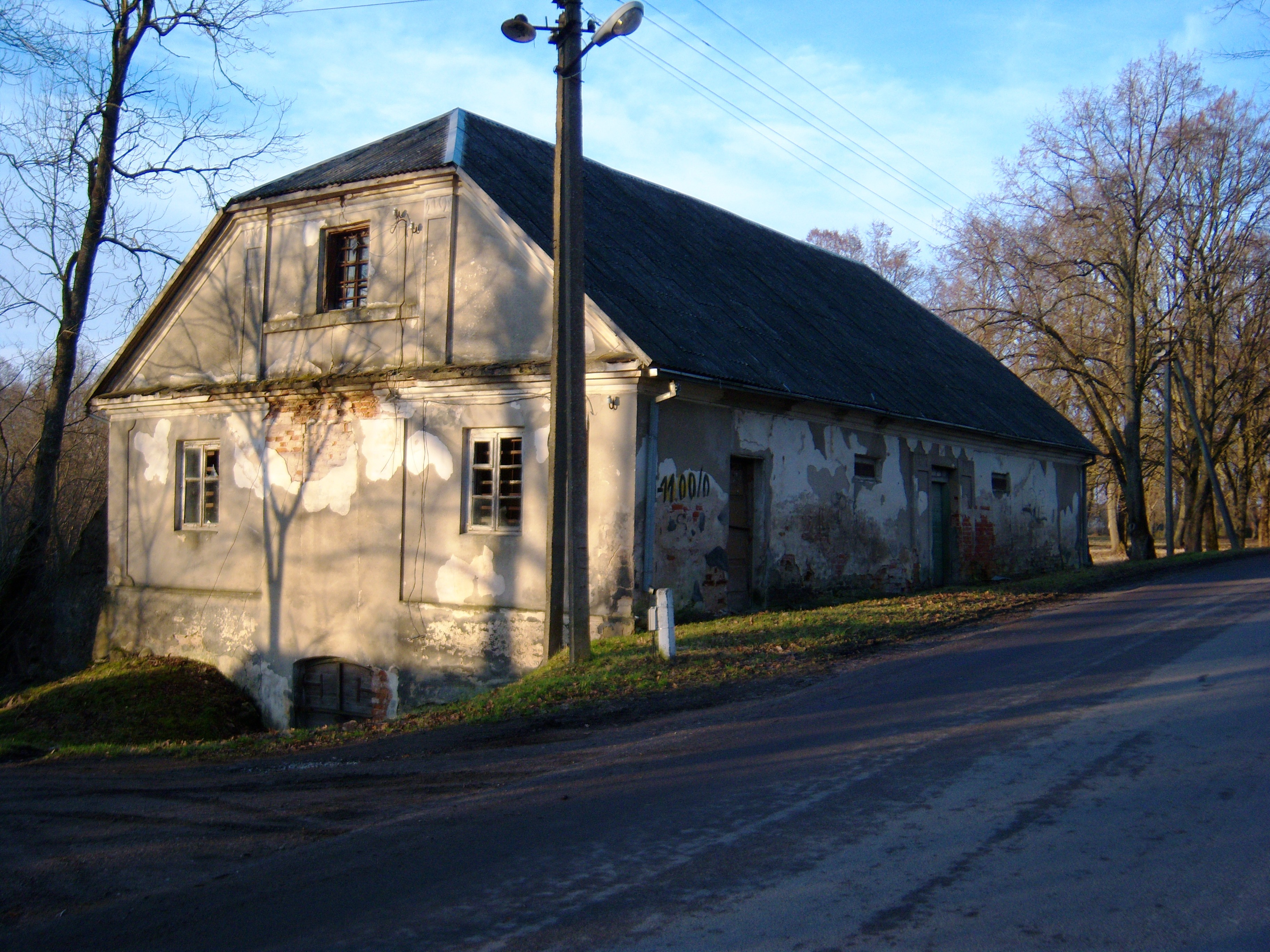 Pagryžuvys manor, Kelmė District, Lithuania